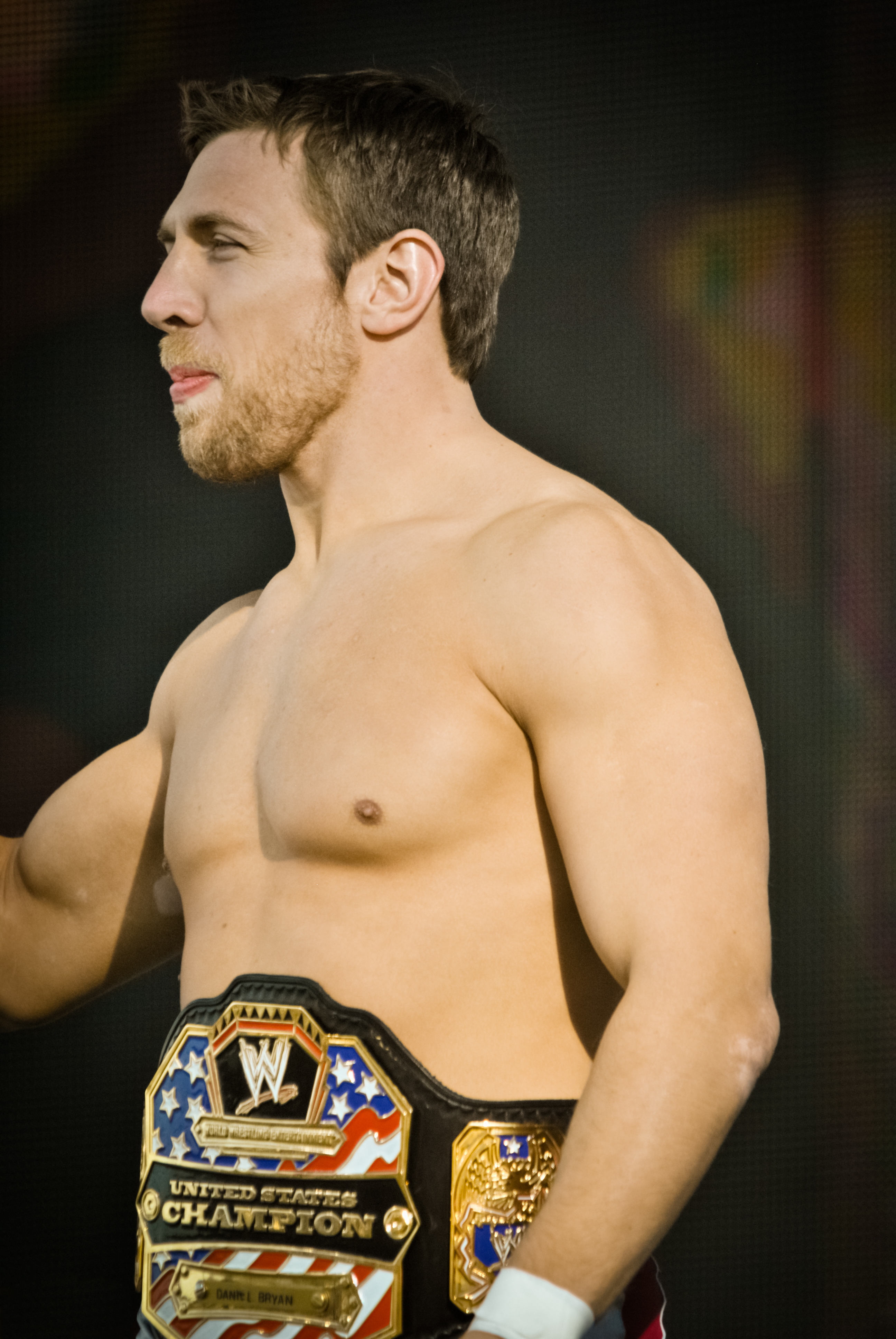 The WWE United States Champion, Daniel Bryan, during WWE's annual Tribute to the Troops event in Fort Hood, Texas, on December 11, 2010.